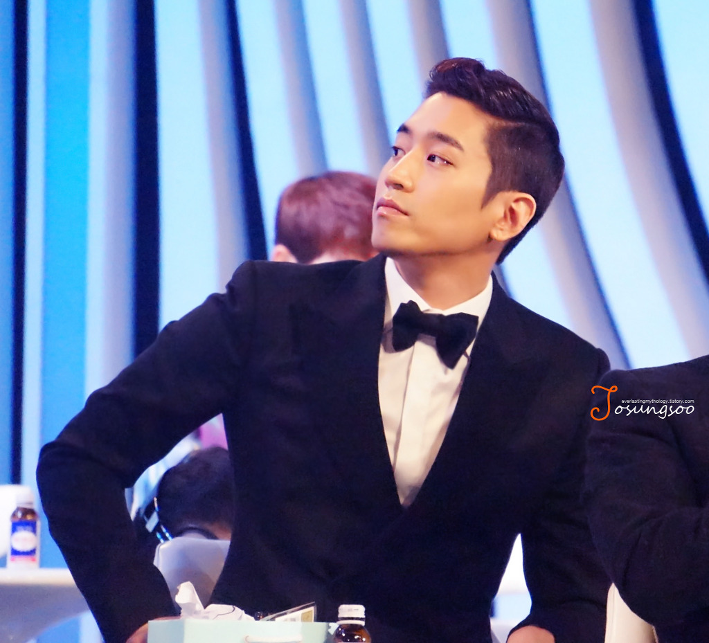 130718 eric MNET 20'S CHOICE 조선말: 130718 에릭 MNET 20'S CHOICE